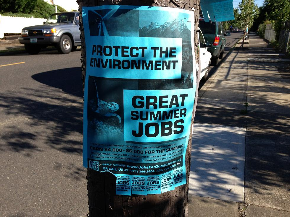 Advertisement for Environment Oregon.